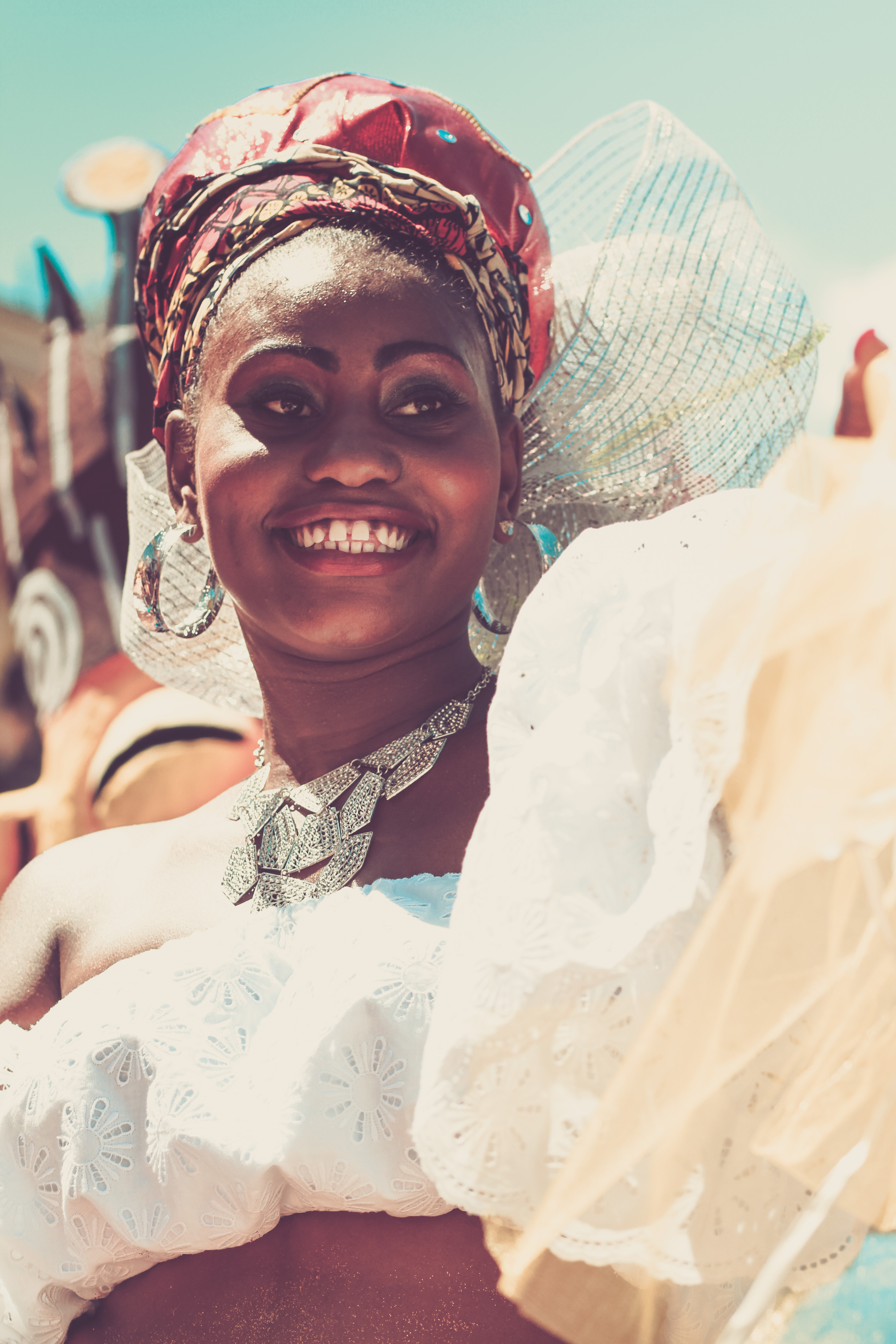 Sometimes I shoot on an 80mm lens to help viewers of my photographs feel the moments as I experienced them. Caches of micro-minutiae. Stolen moments amplified in real time with sounds, light and stored away in my mind. Kanaval is many things. A crash course of colonial history, ancient religion and modern culture. Kanaval is hot, sweaty, overwhelming. It is also beautiful, exciting and vibrant. I hope you can experience it at least once. Amazing. ... Haiti has a unique traditional carnival, Rara, that is separate from the main pre-Lent Kanaval celebrations. Rara processions take place during the day and sometimes at night during Lent, then culminate in a week-long celebration that takes place at the end of Lent, during the Catholic 'Holy Week', which includes the Easter holiday. Rara has its roots in Haiti's an deyò areas, the rural areas around Port-au-Prince. It is based on peasant Easter celebration customs. Rara celebrations include parades with musicians playing drums, tin trumpets, bamboo horns called vaksens, and other instruments. Parades also include dancers and costumed characters such as Queens (called renns), Presidents, Colonels, and other representatives of a complex rara band hierarchy, similar to the krewe organization of New Orleans Mardi Gras bands. Kanaval celebrations end on Mardi Gras, which is French for 'Fat Tuesday', also known as Shrove Tuesday. Mardi Gras is the Tuesday before the Roman Catholic holiday known as Ash Wednesday. Ash Wednesday marks the beginning of the Lenten season, a somber period of fasting and penance that precedes Easter for Catholics.